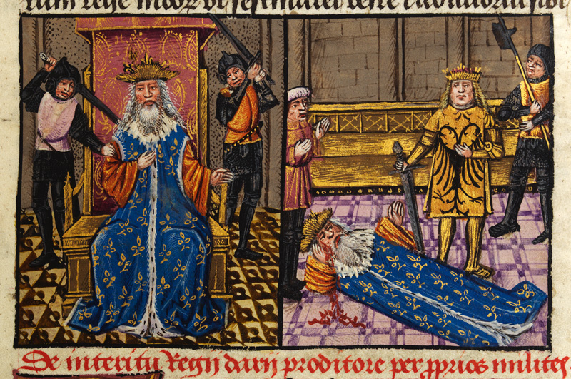 The murder of Darius by his own generals; Alexander at the side of the dying king (f. 59)